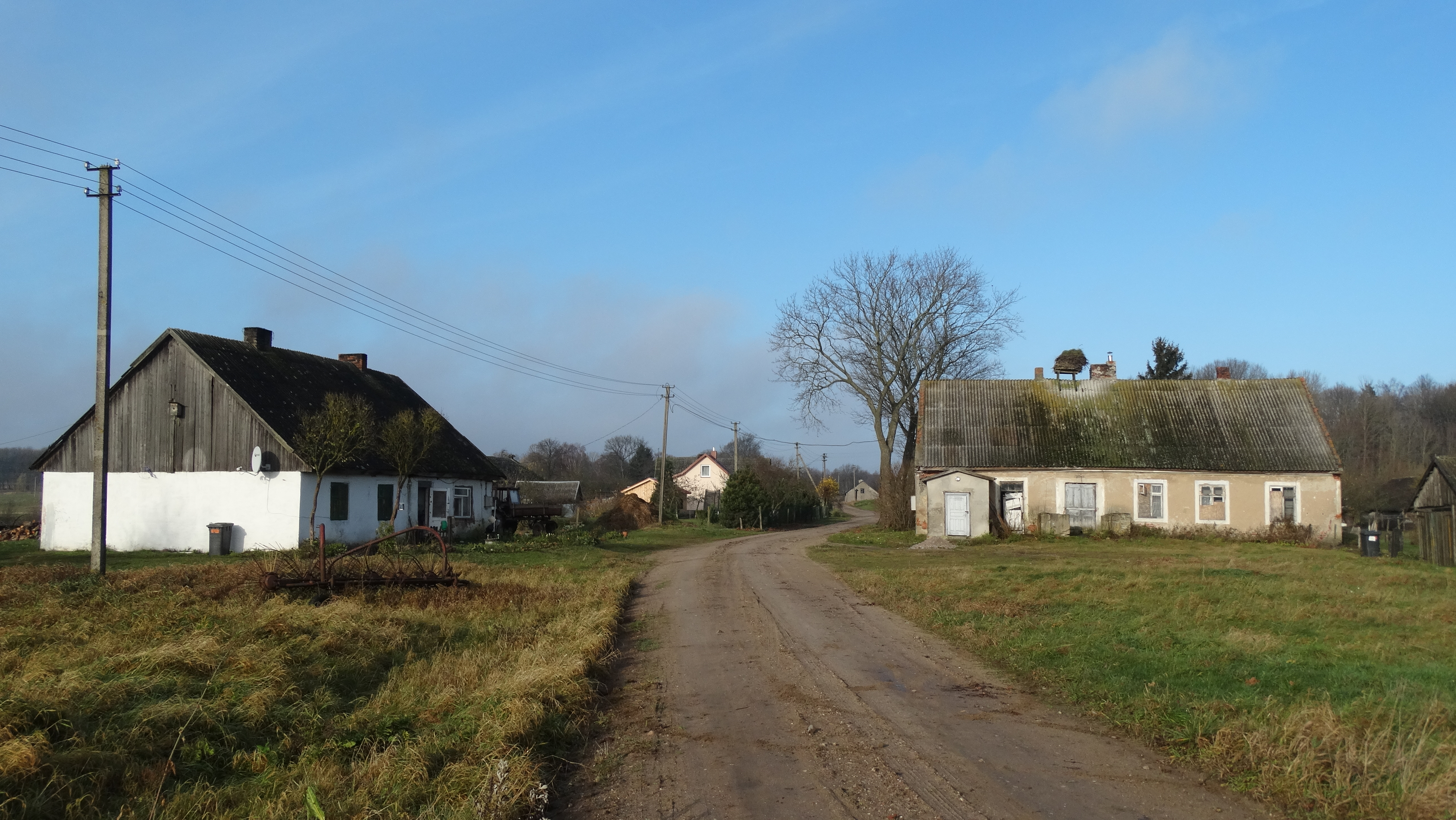 Opstainys, Pagėgiai Municipality, Lithuania